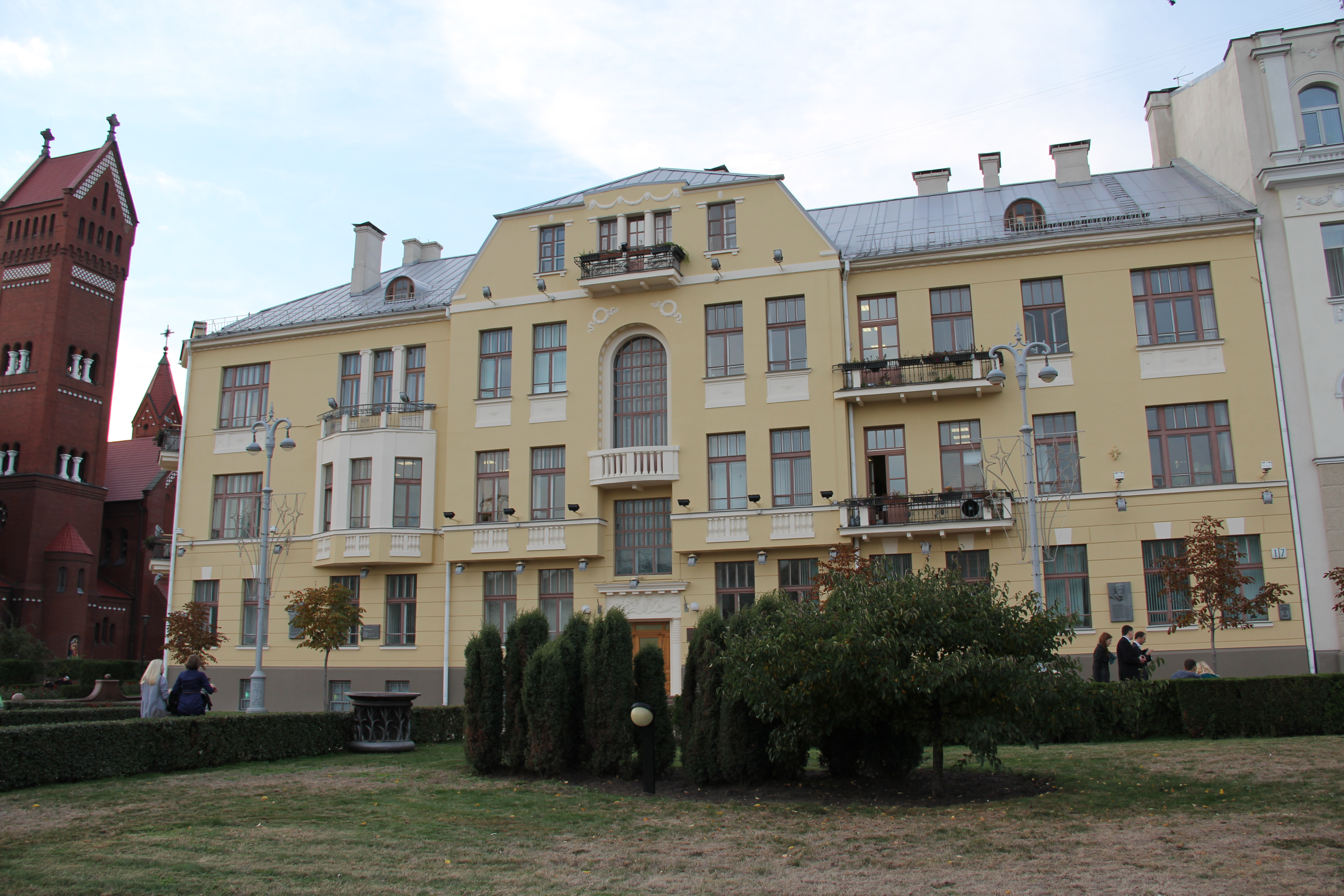 Беларуская (тарашкевіца): Будынак. г. Менск This is a photo of Belarusian heritage monument. Reference number: 713Г000231 ( WLM)